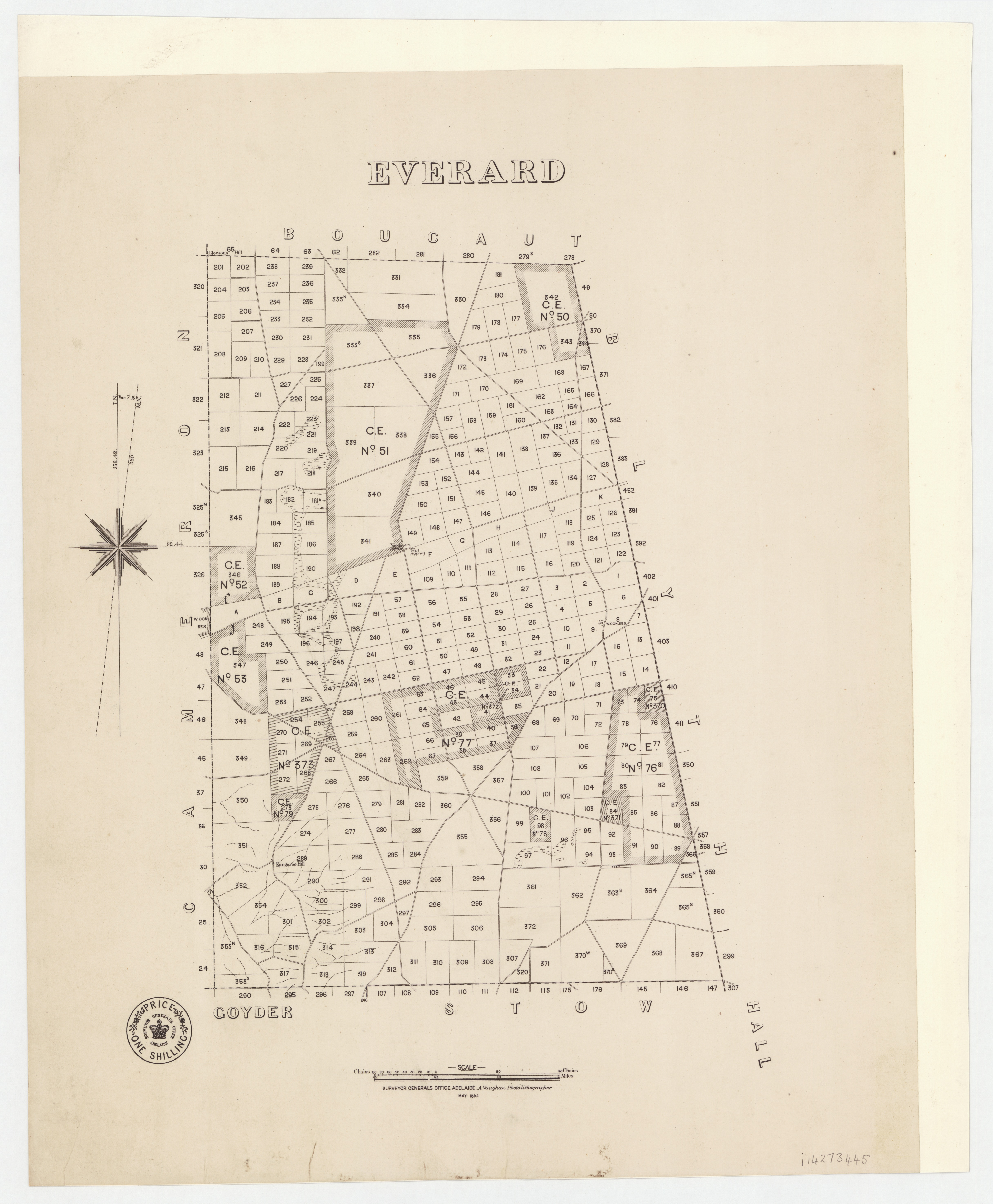 View additional information for this map Filename: map830bje63360_everard1894_ds.jpg